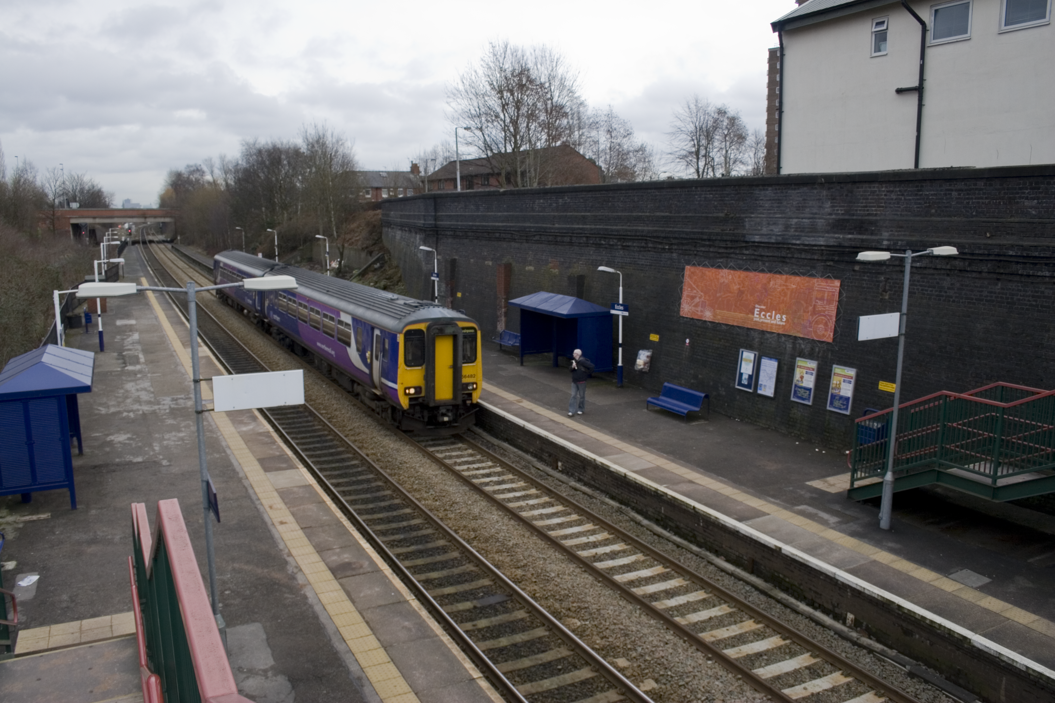 Eccles Railway Station, looking east.